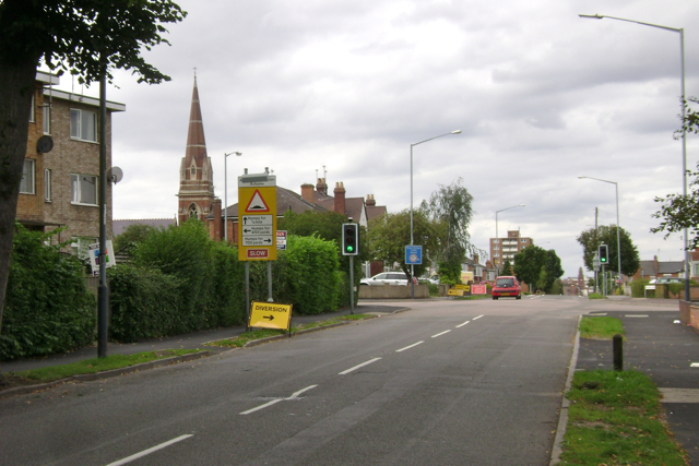 Brunswick Street, Leamington Spa. At the junction with St Helen's Road, left, and Grosvenor Road, right. The church spire is that of St John's, Tachbrook Street 1416233. The tower in the distance, at the focal point of the street (not the block of flats), is Leamington Town Hall north of the river SP3165. Opened in 1884, it replaced the old town hall south of the river. It is said that the tower was positioned by design to be visible from the southern part of the town.